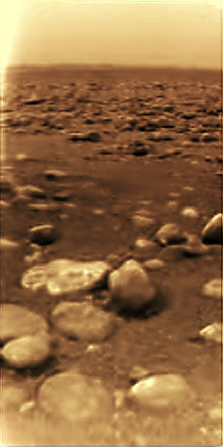 The color x2 super-resolution image of the Titan's surface as seen by the Huygens probe.